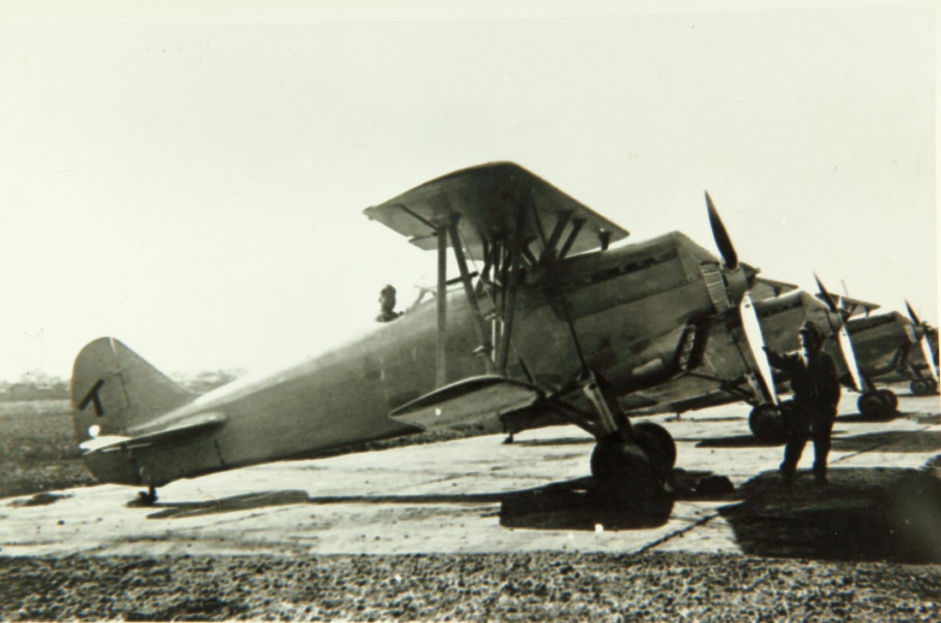 Catalog #: 01_00081898 Title: Kawasaki, Ki-10, Perry Corporation Name: Kawasaki Official Nickname: Perry Additional Information: Japan Designation: Ki-10 Tags: Kawasaki, Ki-10, Perry Repository: San Diego Air and Space Museum Archive